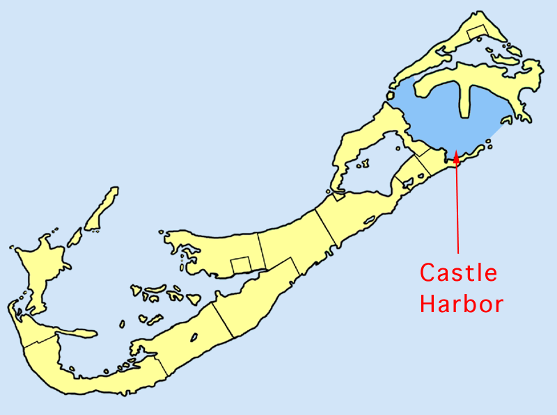 Location map of Castle Harbor, Bermuda